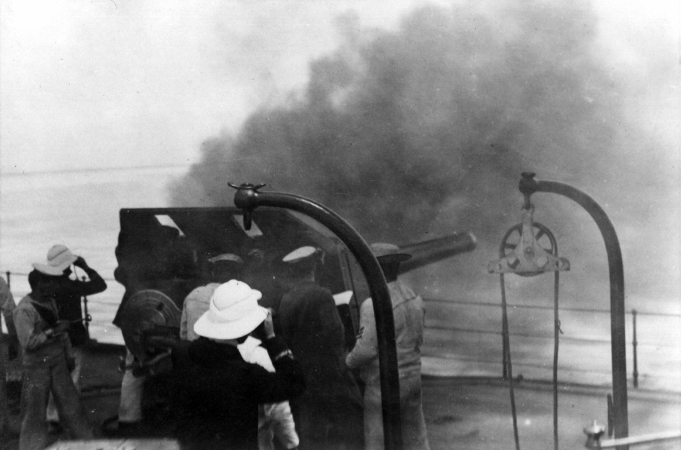 QF 6 inch gun firing exercise aboard Canadian cruiser HMCS Niobe, originally HMS Niobe.